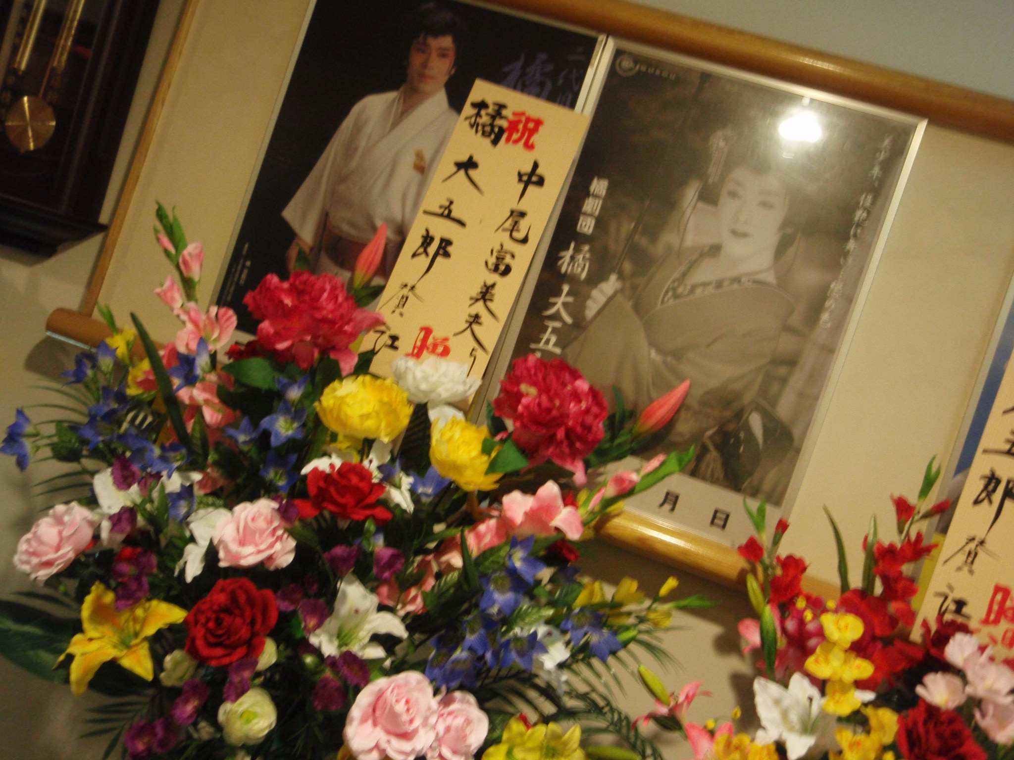 Bouquets of flowers gifted by fans to taishū engeki actor Tachibana Daigorō. Taken at Miyoshi-bashi Theatre, Yokohama.